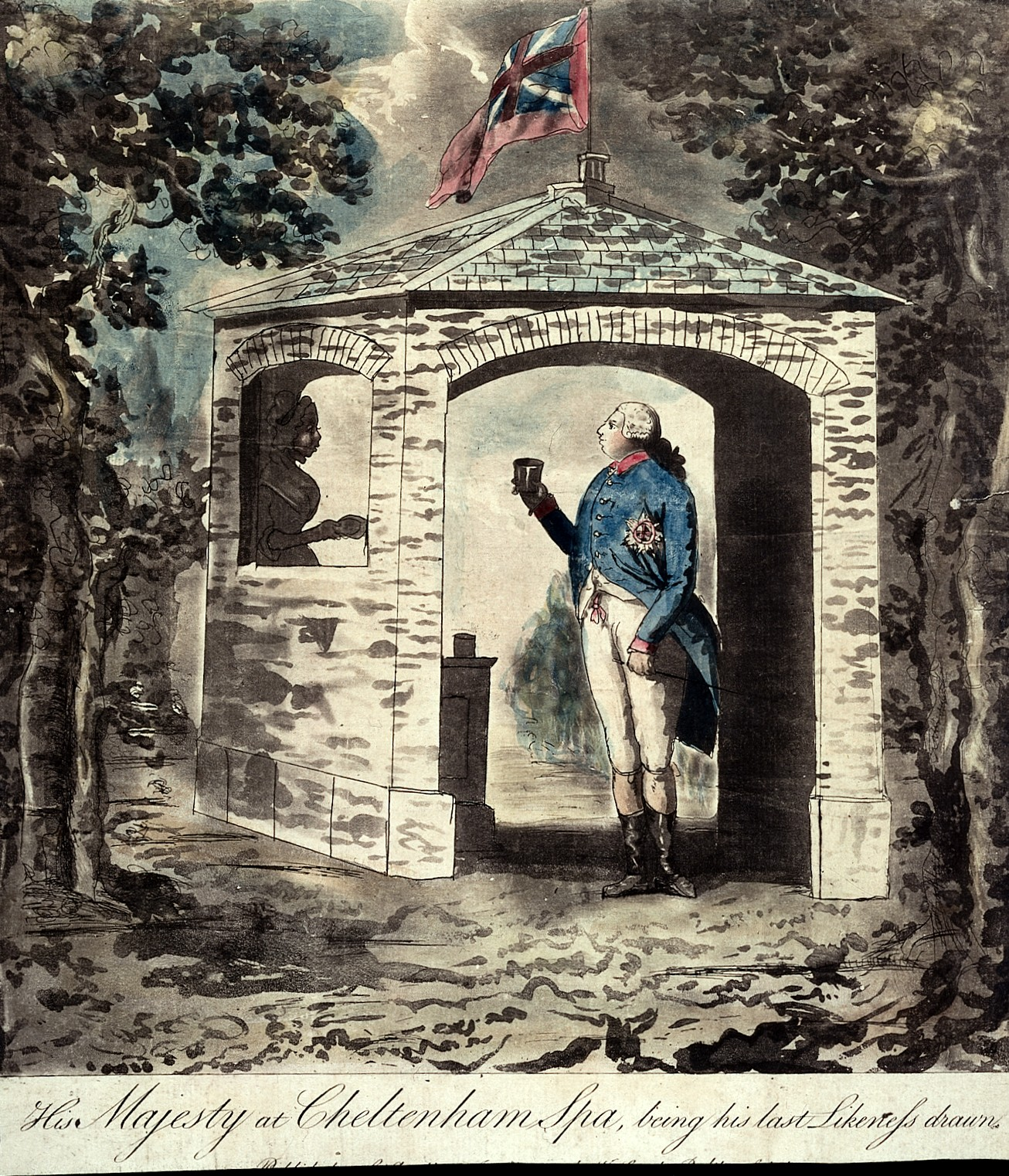 King George III taking the waters at Cheltenham. Coloured aquatint by J.C. Stadler after C. Rosenberg, 1812. Iconographic Collections Keywords: Balneology; George III; Charles Rosenberg; Joseph Constantine Stadler